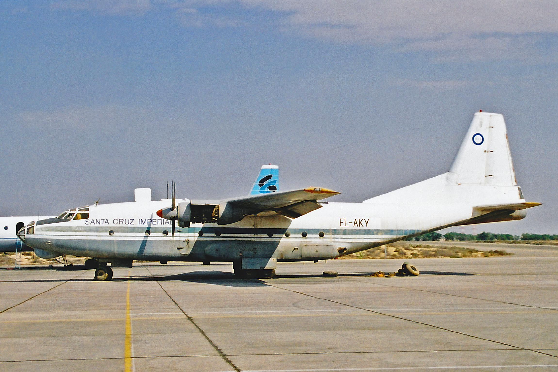 In storage for some years and awaiting the scrap mans axe.